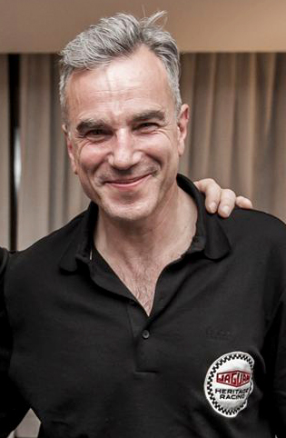 Daniel Day-Lewis at the 2013 Jaguar Mille Miglia event